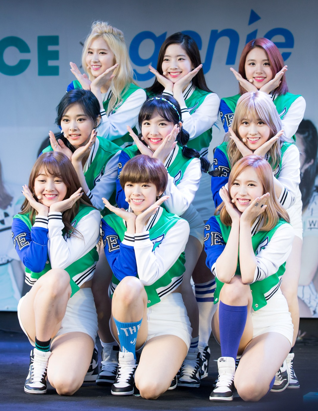 Twice guerrilla concert (cropped from original)